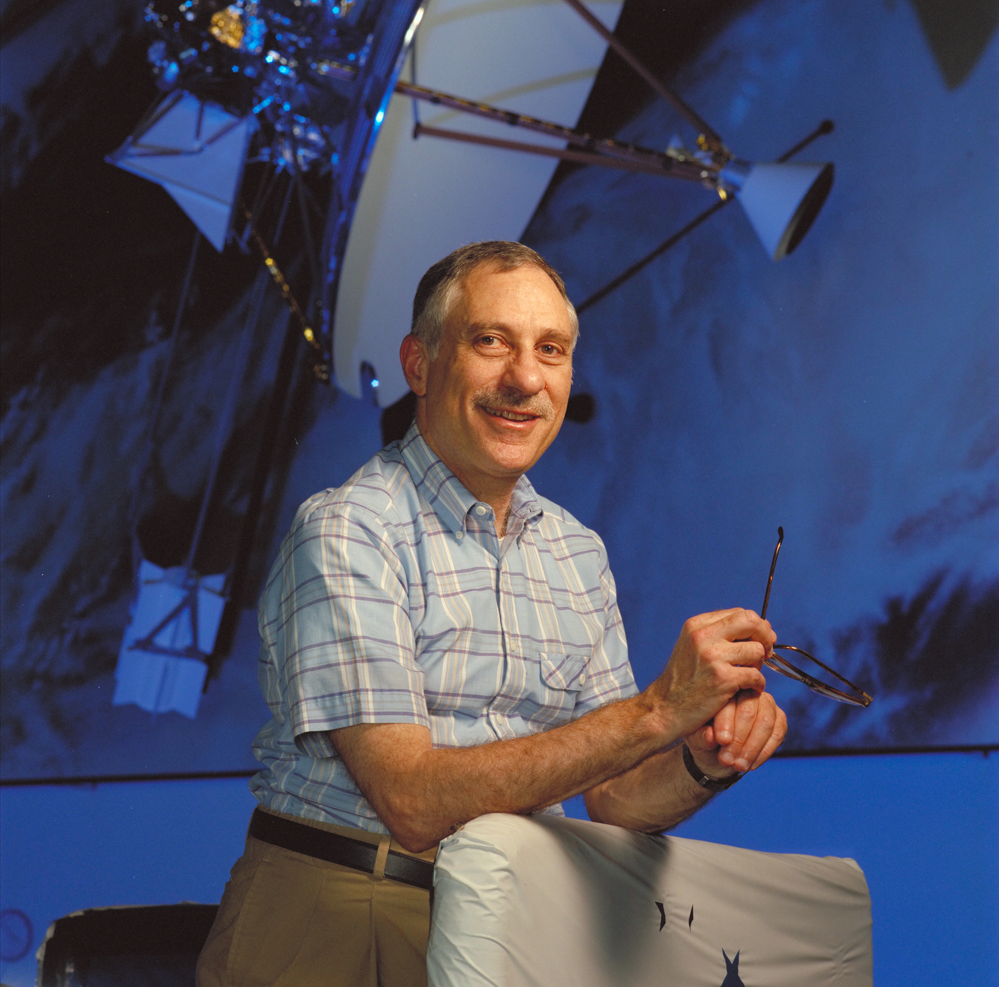 Dr James Pollack, a radiative transfer theorist (Planetary Scientist) in planetary systems branch in the Ames Space Sciences Directorate (and Ames Fellow)